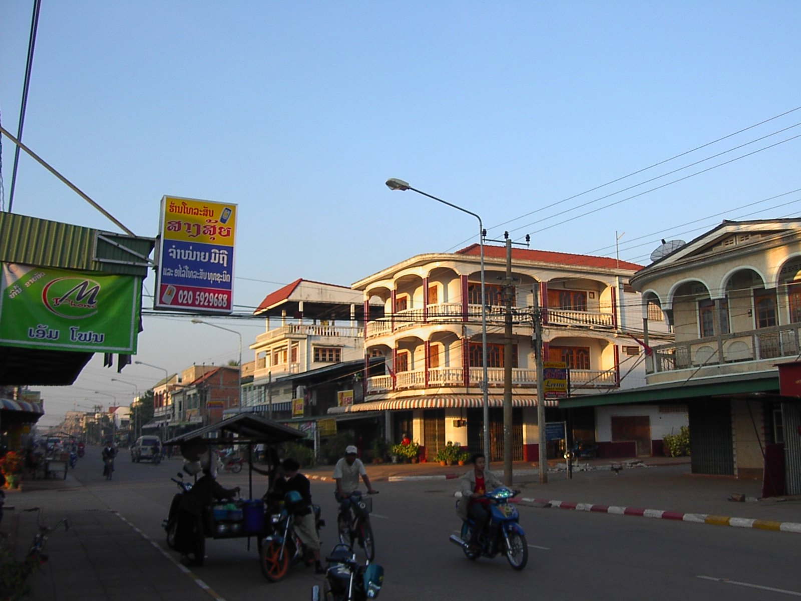 Image imported from the English wikipedia, there it was under public domain. Image importé de la wikipédia anglophone.